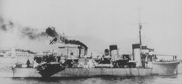 HIJMS Patrol Boat No.101 (ex.- HMS Thracian D86)